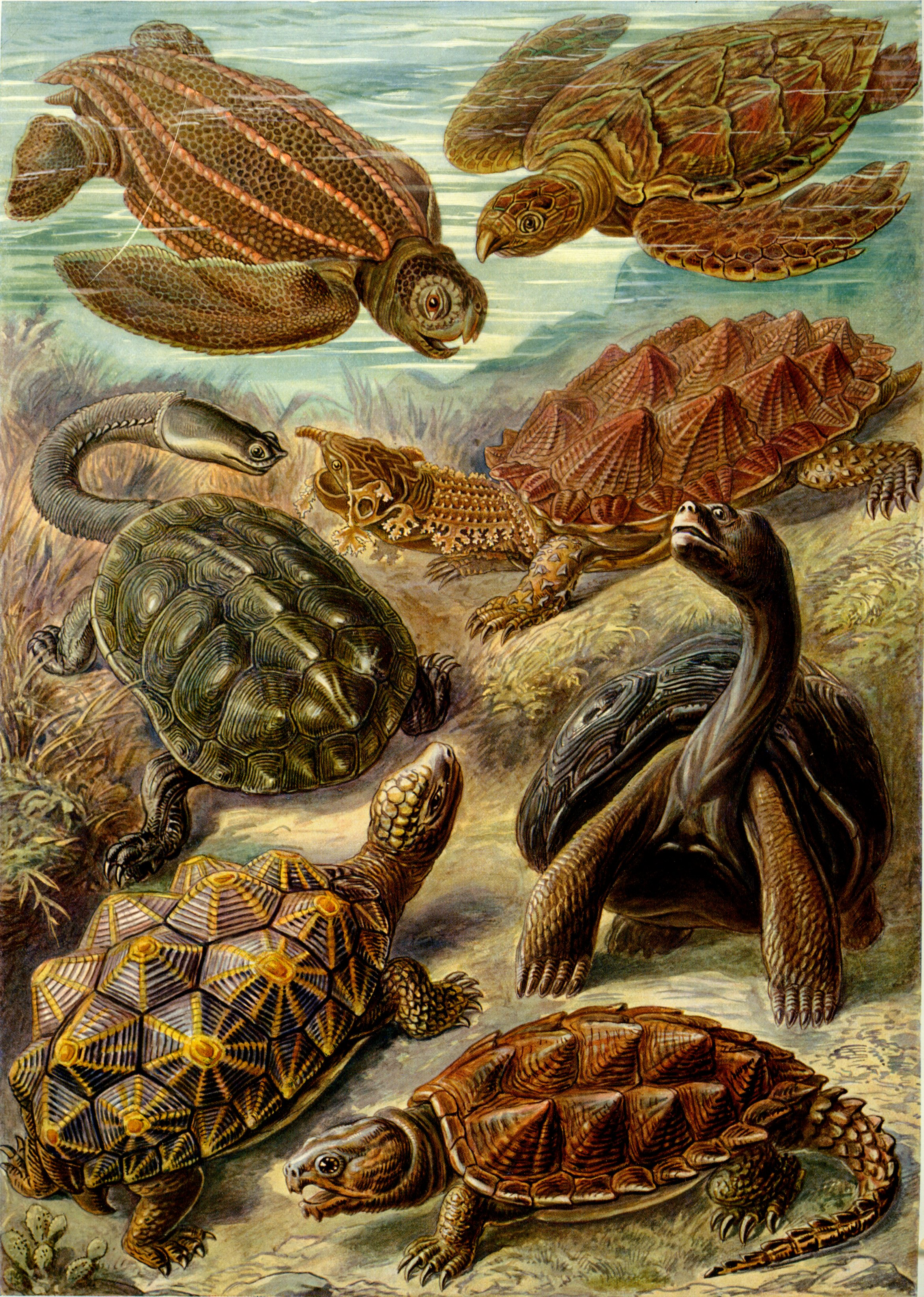 1: Leatherback Turtle 2: Hawksbill Turtle 3: Argentine Snake-necked Turtle 4: Mata mata 5: Geometric Tortoise 6: Galápagos Tortoise 7: Common Snapping Turtle